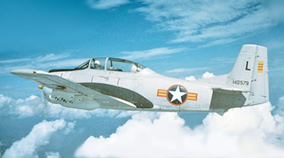 USAF T-28 VNAF colours